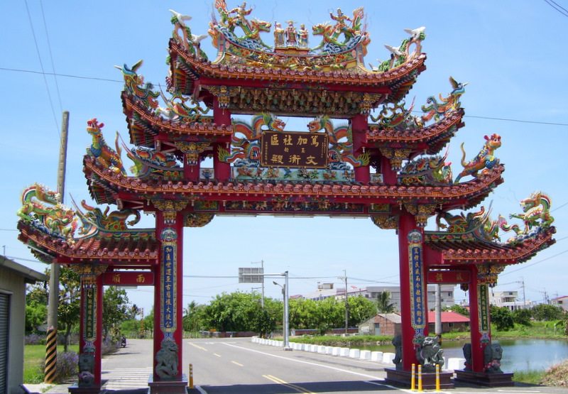 the version of Duja country.